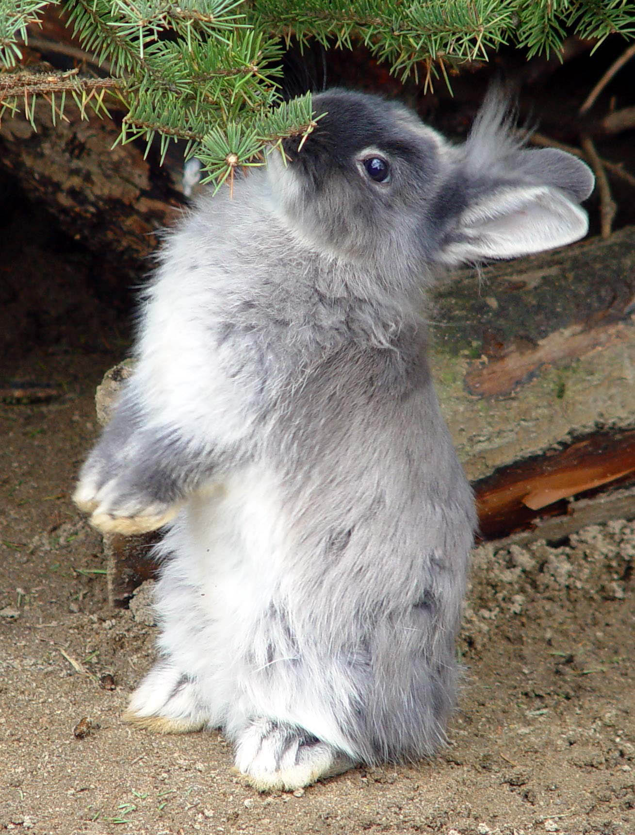 Coney